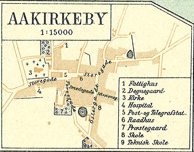 Map of Bornholm in Denmark